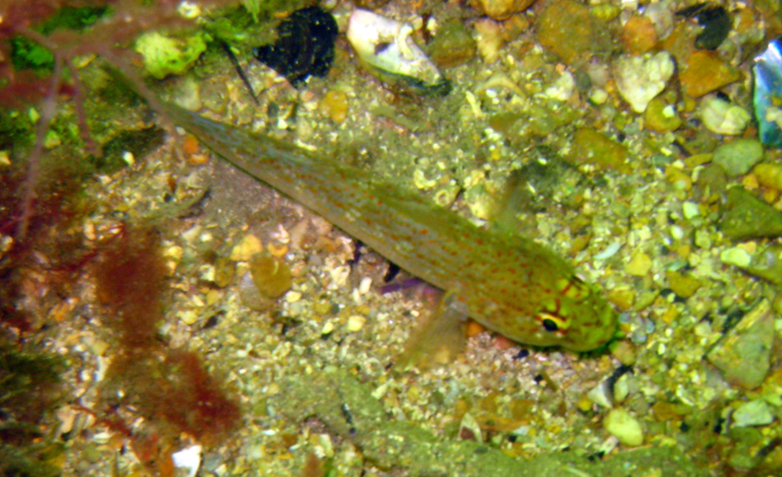 Gobius xanthocephalus , picture taken in Niolon near Marseilles.